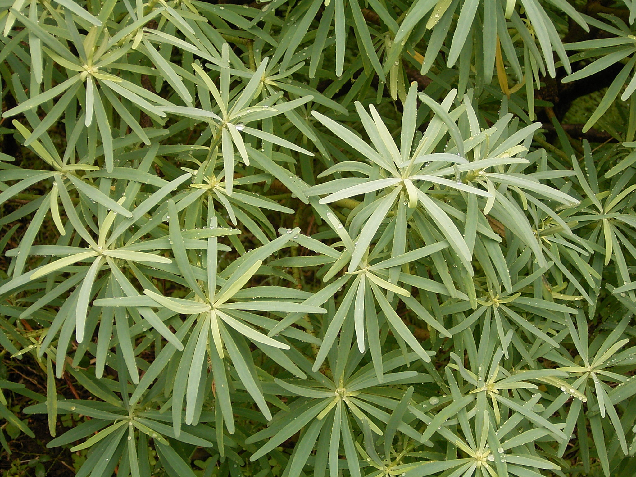 Euphorbia growing in Barlovento, La Palma, Canary Islands